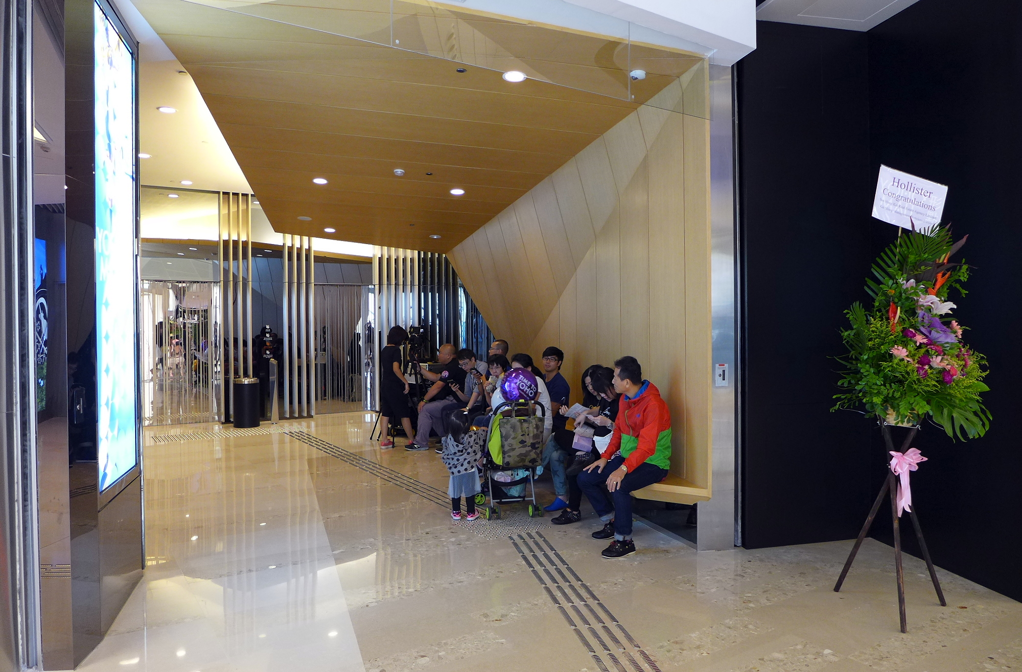 YOHO Mall seats area